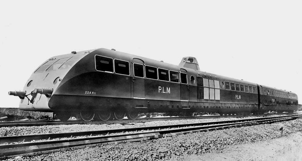 Railcar (1B1)(1B1) Bugatti_ZZA_K_1